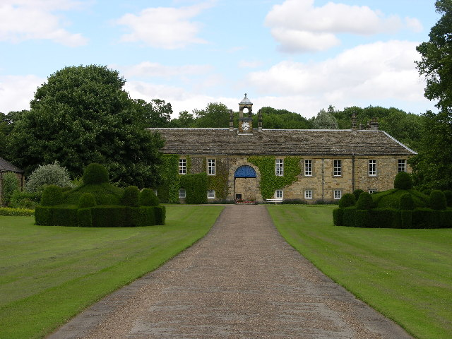 Newburgh Priory A stately home originally an Augustinian Priory from 1145. Later, the country seat for the Belassis family in the 16th and 17th century. A legend exists that claims Oliver Cromwell's head is entombed in a secret chamber within the walls. Belonged formerly to the Earls of Fauconberg and presently the home of the Wombwell family.